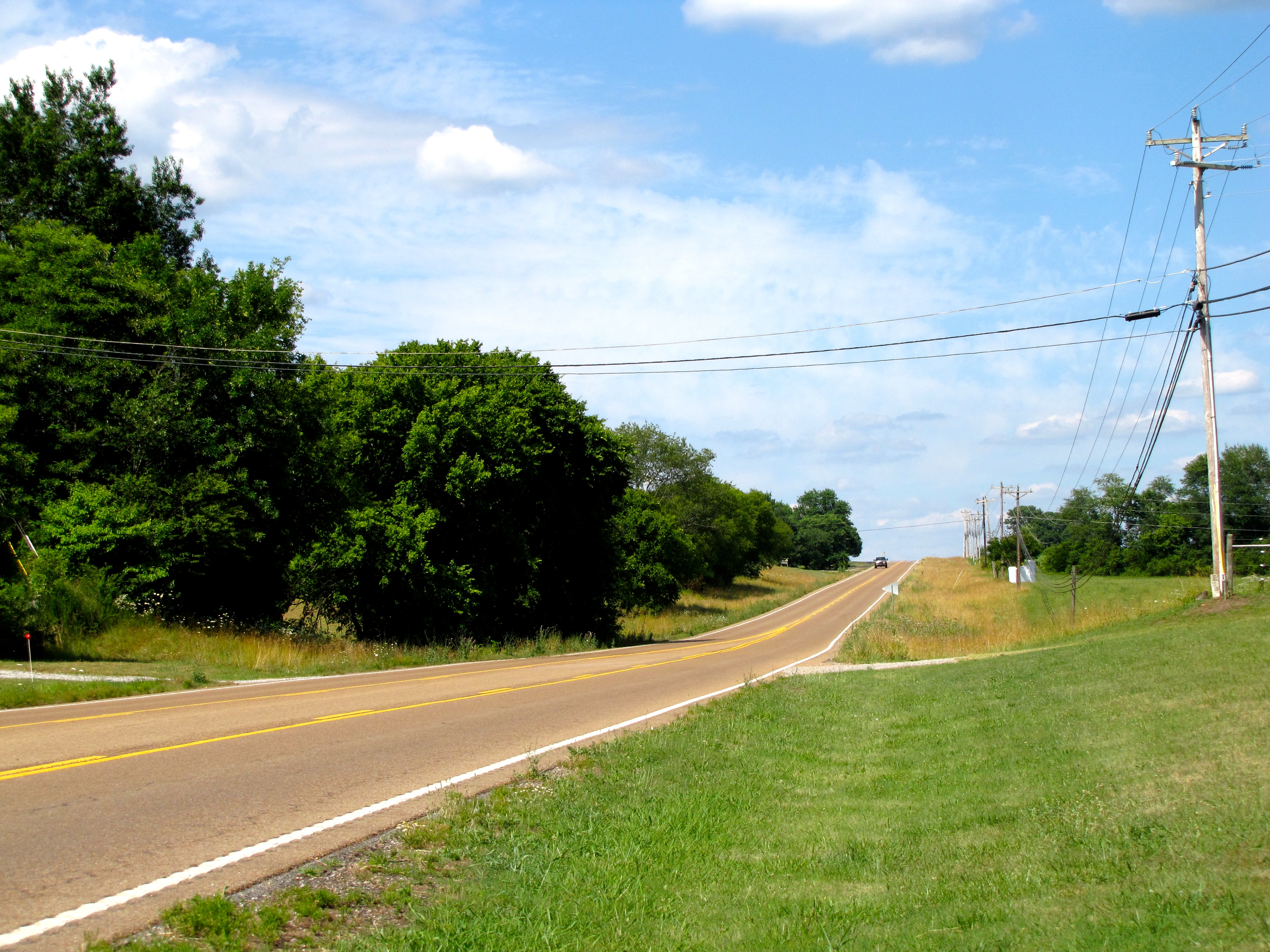 U.S. Route 127 near Lees Station in Bledsoe County, Tennessee, United States.